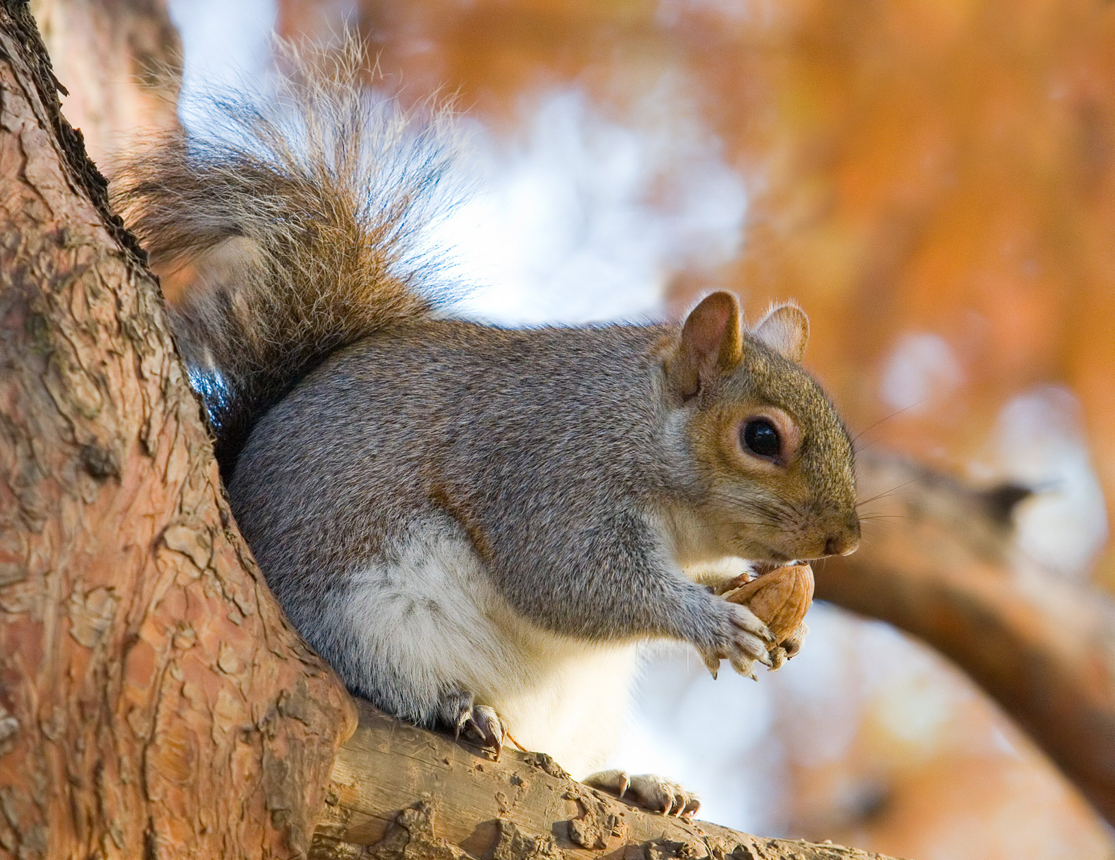 An Eastern Grey Squirrel (Sciurus carolinensis) in St James's Park, London, England.